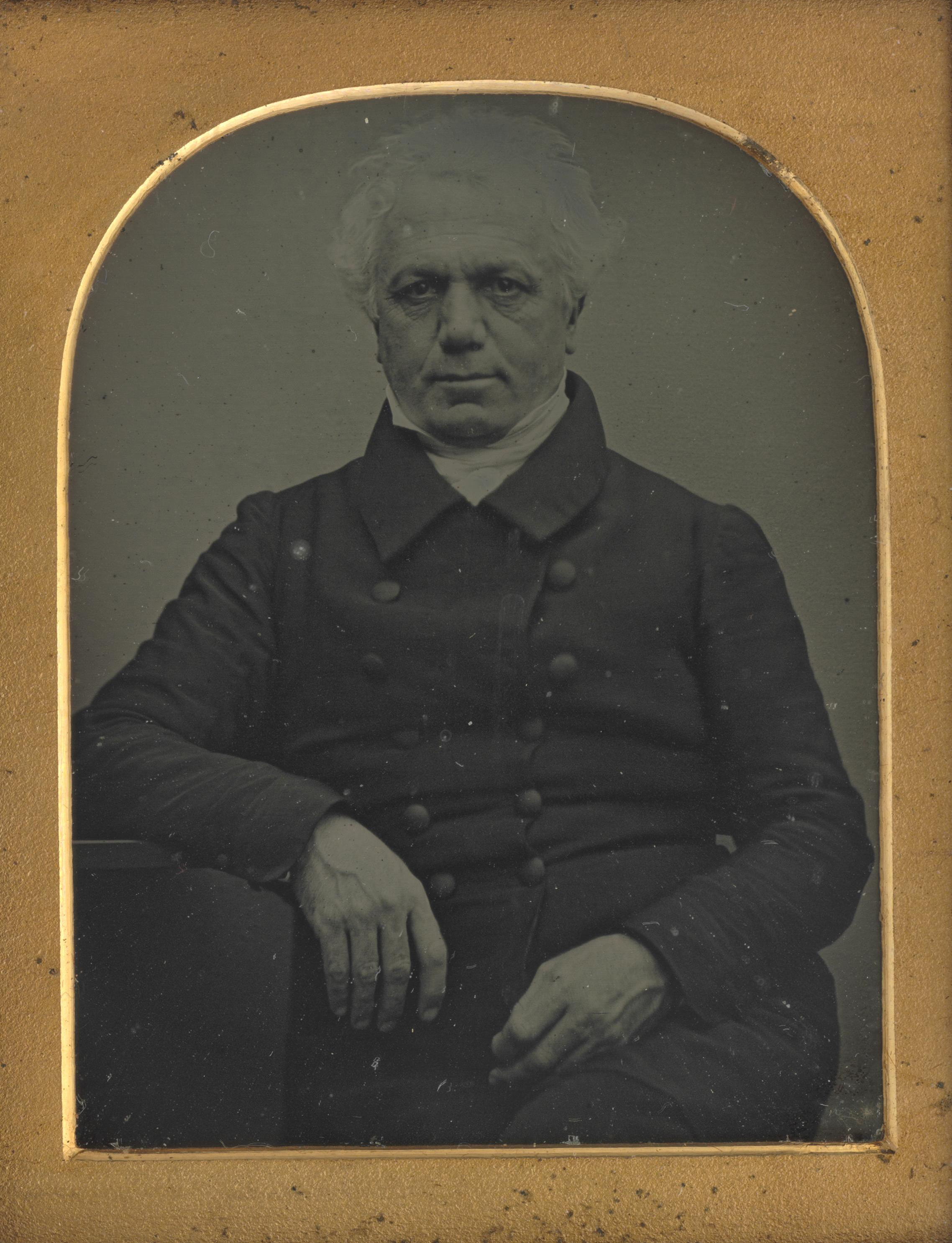 Daguerreotype of Dr. William Bland by George Baron Goodman , Australia, 1845. Reputed to be the earliest extant photographs taken in Australia.